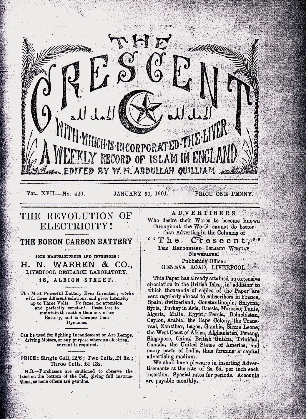 front page from January 30th 1901